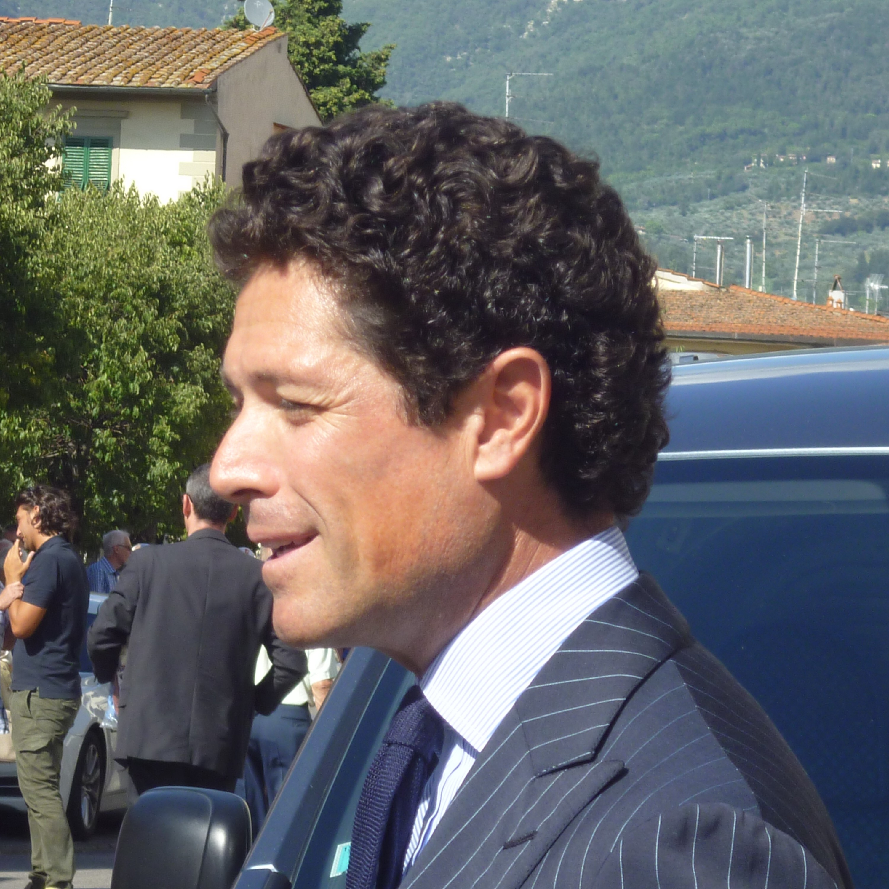 Matteo Marzotto at Alfredo Martini's funeral